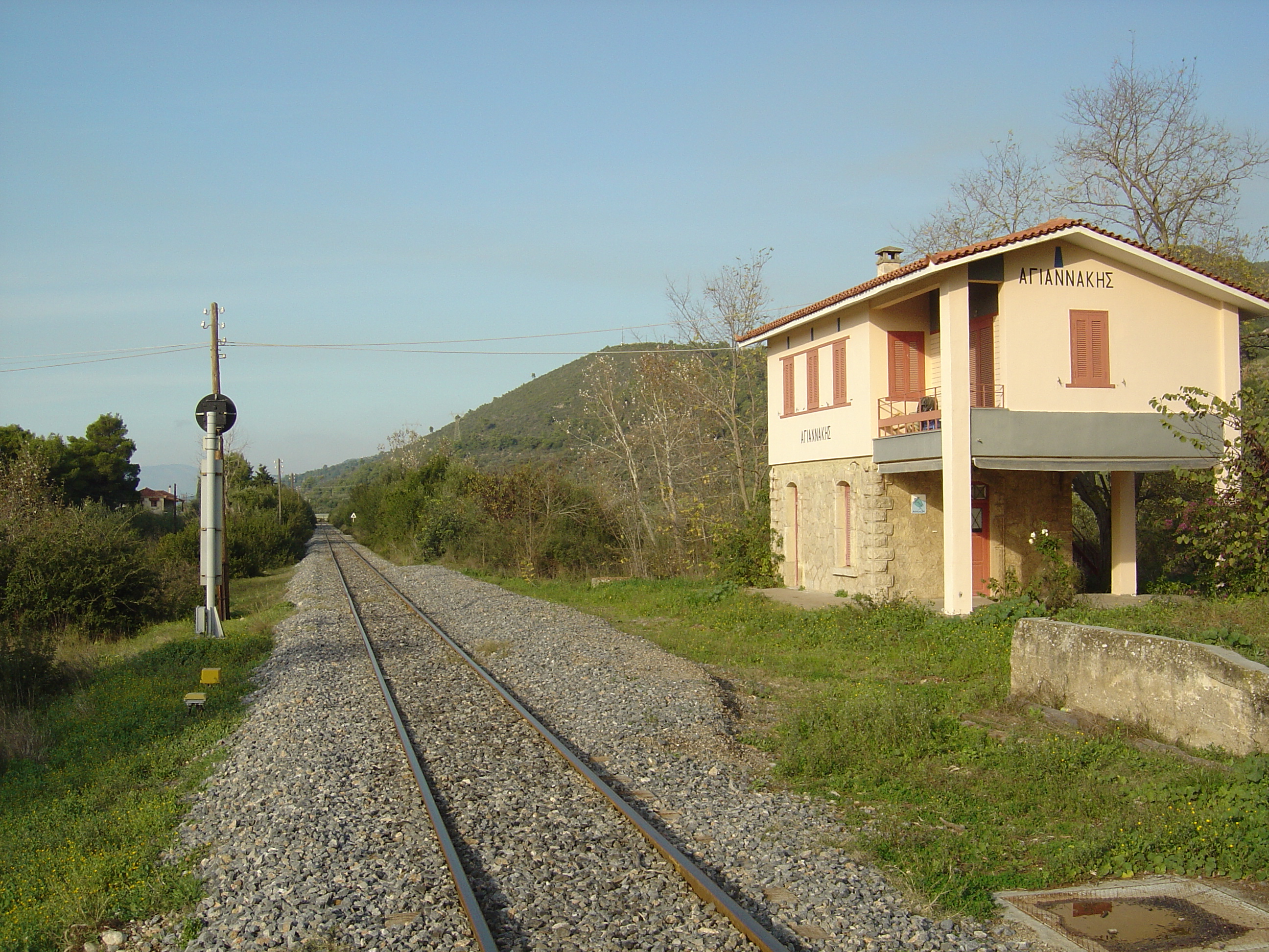 Railway Station_Agiannakis